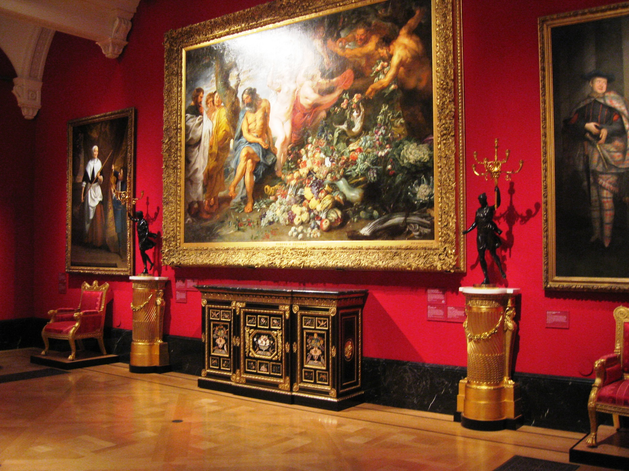 Royal Collection